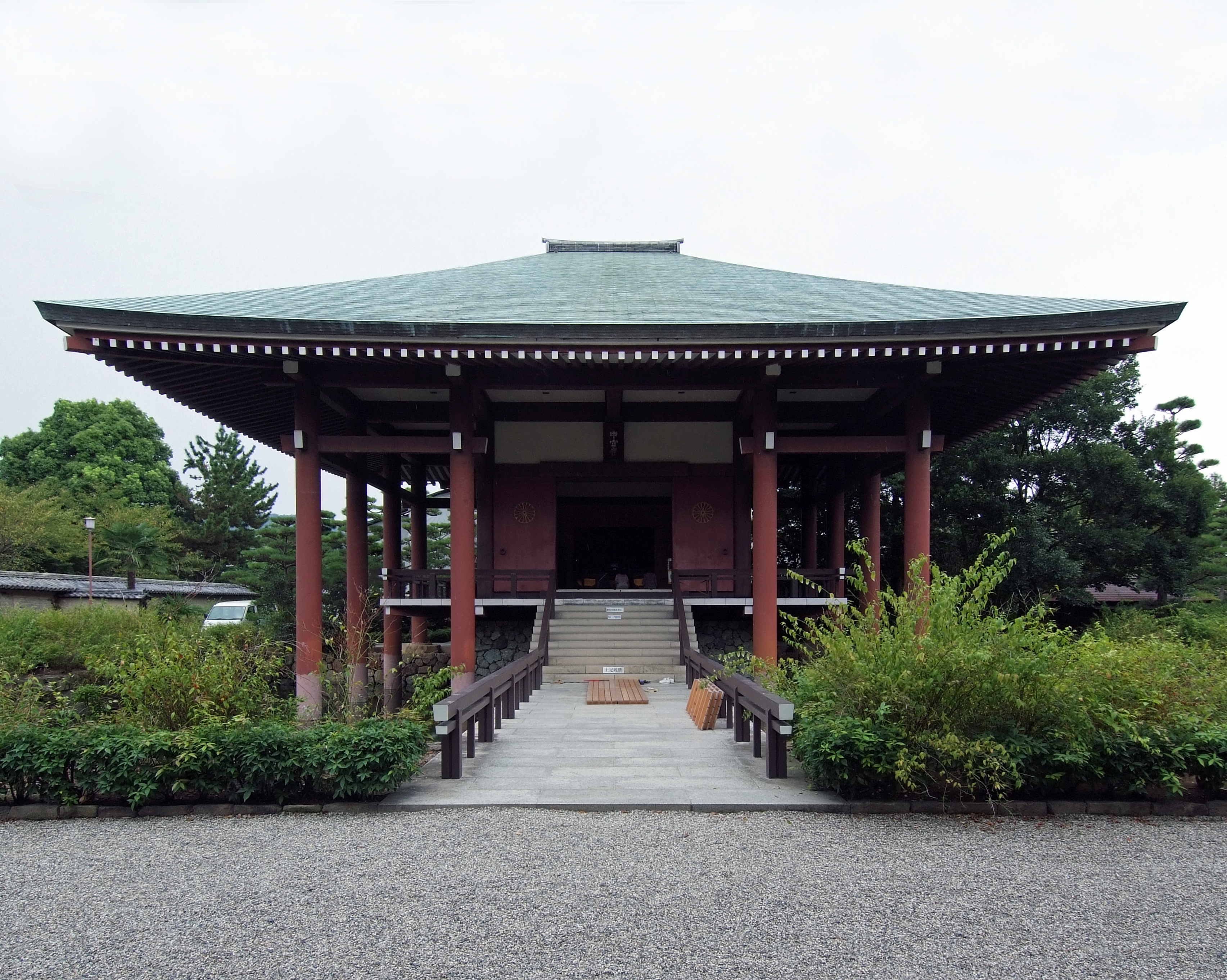 Chugu-ji Hondo in Ikaruga, Nara, Japan. Designed by Isoya yoshida in 1968.